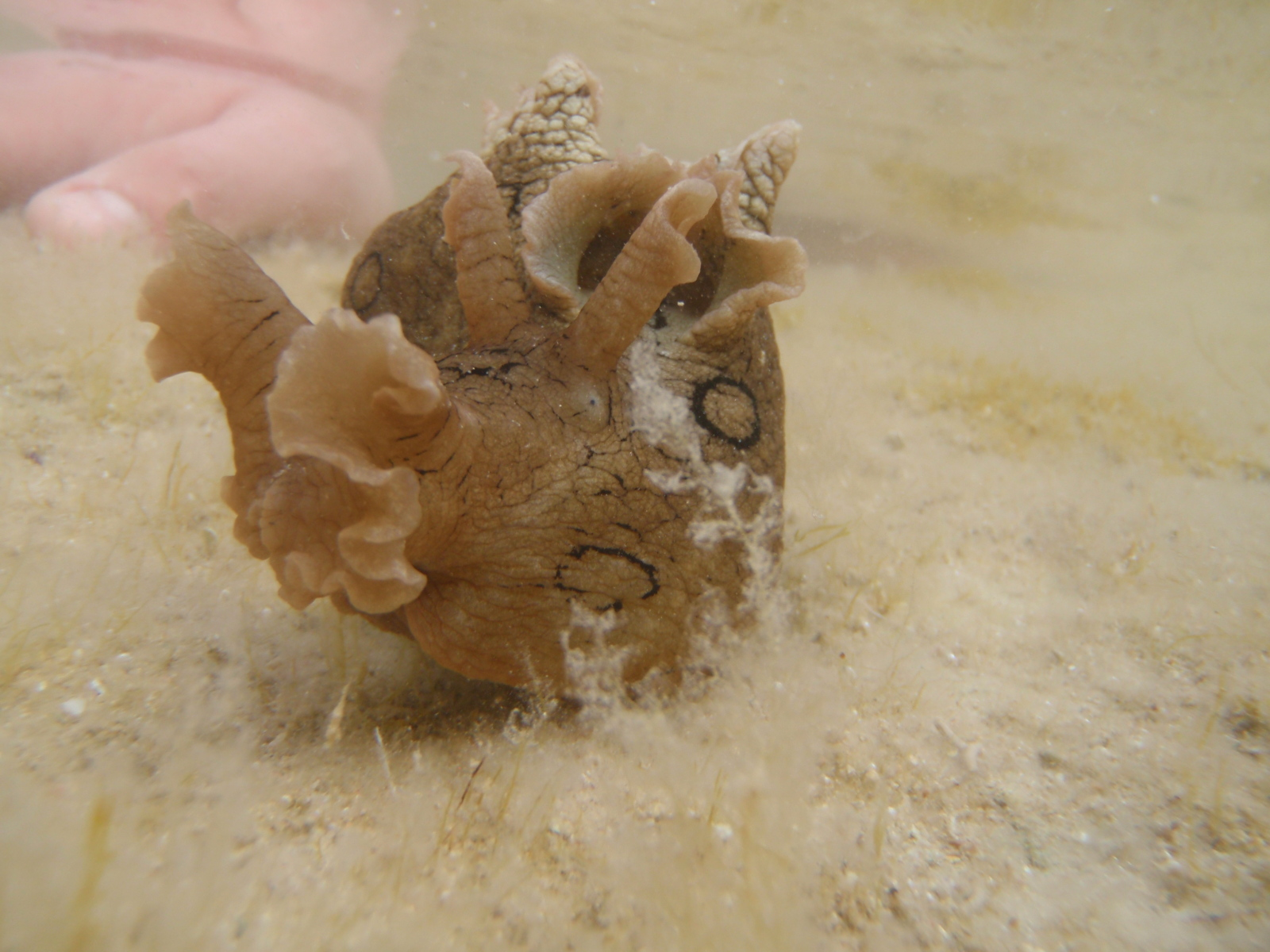 A picture of an Aplysia dactylomela